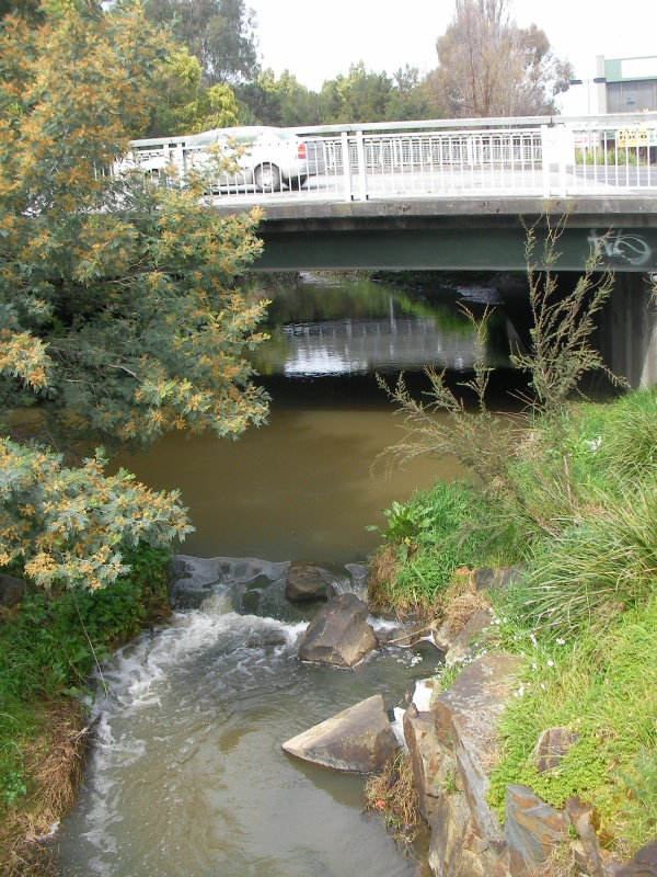 Olinda Creek, Lilydale at Main Road crossing